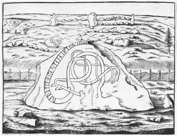 Runic stone U 970 with U 968 and U 969 lying at the background. Drawing by J. Peringskiöld, 1709